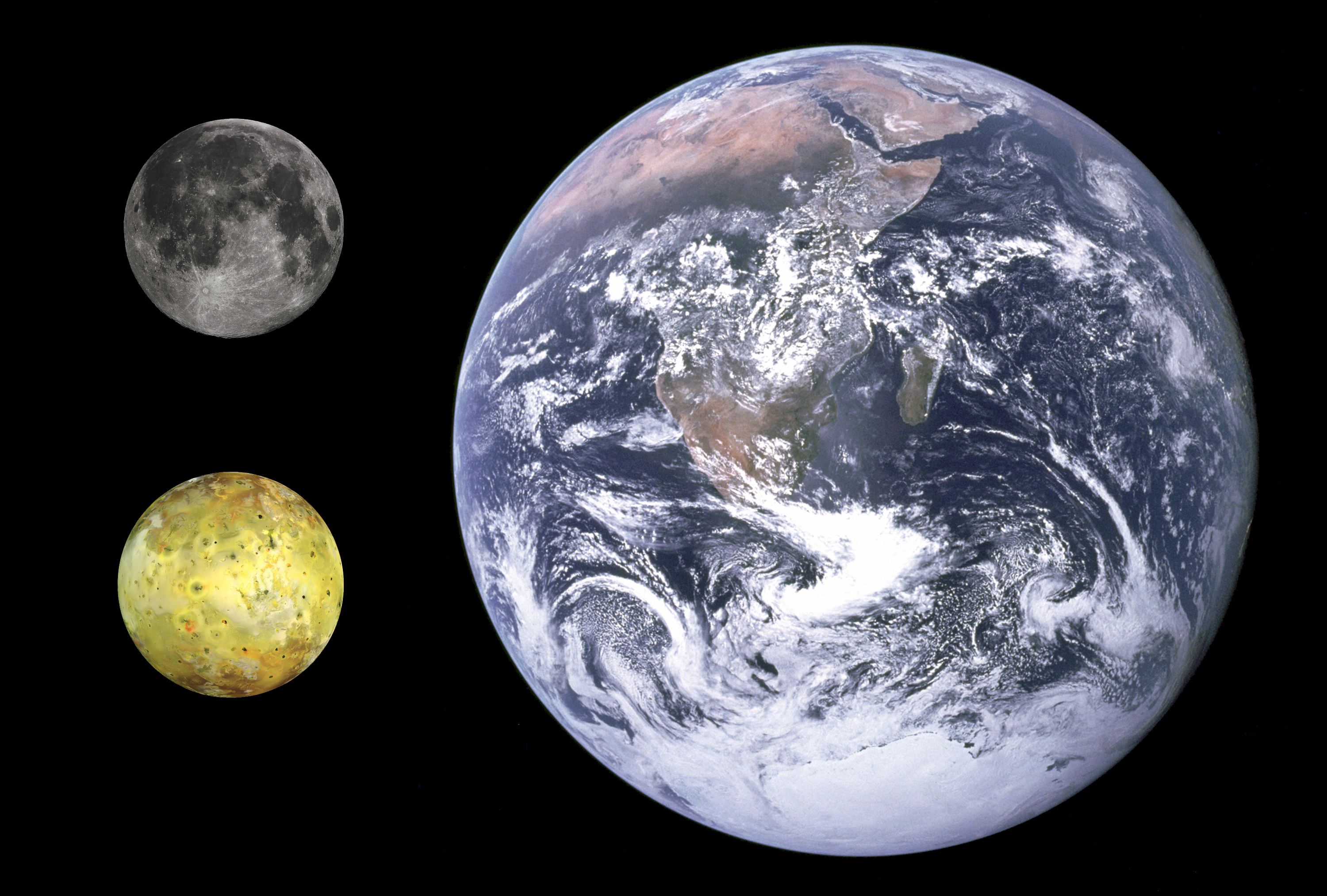 Diameter comparison of Io, Moon, and Earth. Scale: Approximately 29km per pixel.